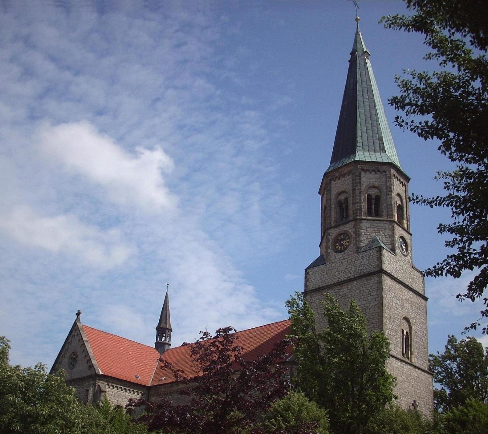 St. Caecilia Catholic Church, Harsum